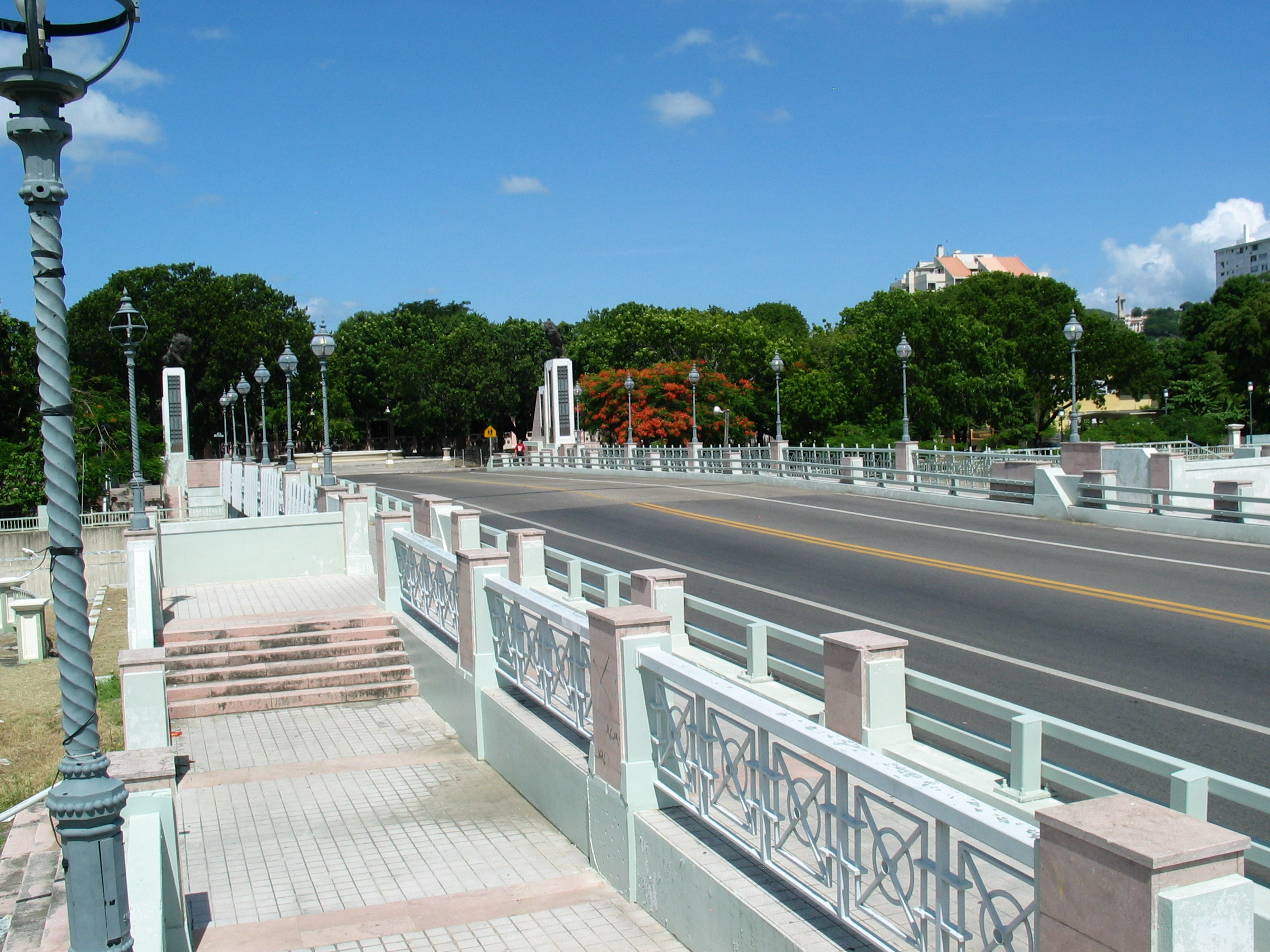 Puente de los Leones en Ponce, PR, mirando hacia el oeste desde el Barrio San Anton hacia Barrio Tercero (IMG 3321)